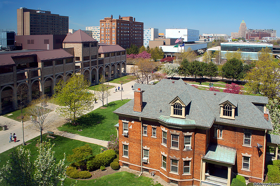 View of Wayne State University campus. The historic Georgian Revival style Frederick Linsell House is in right foreground.